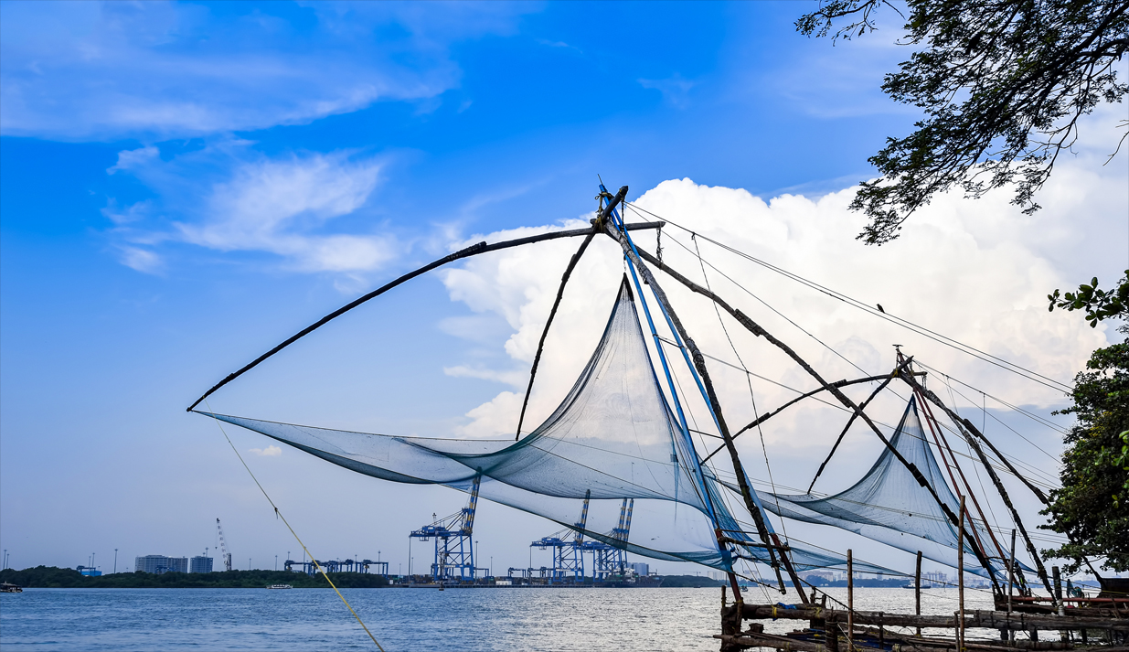 Chinese Fishing Nets with blue sky and white clouds in background at Fort Kochi, Kerala, India